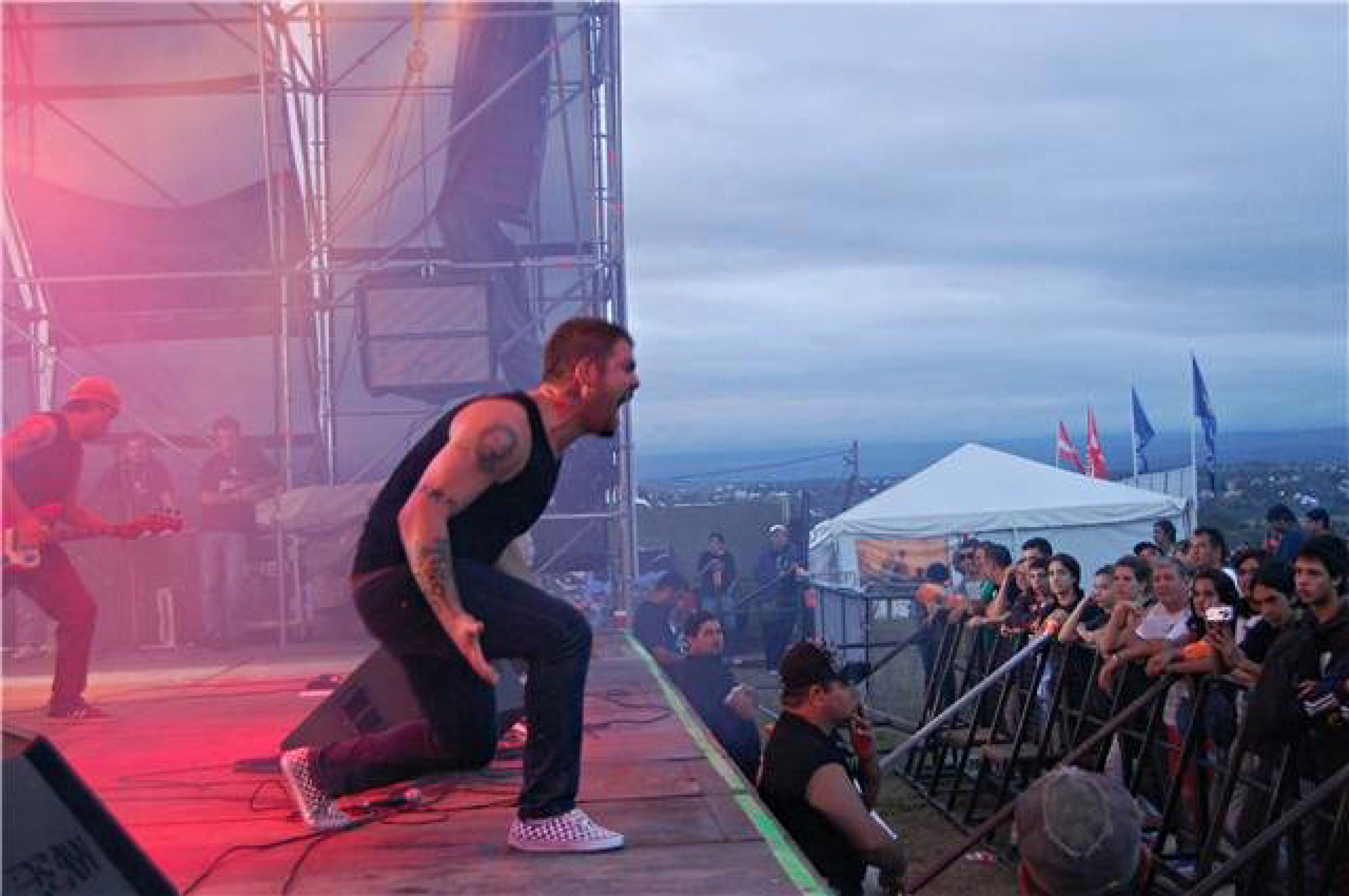 ertyuire